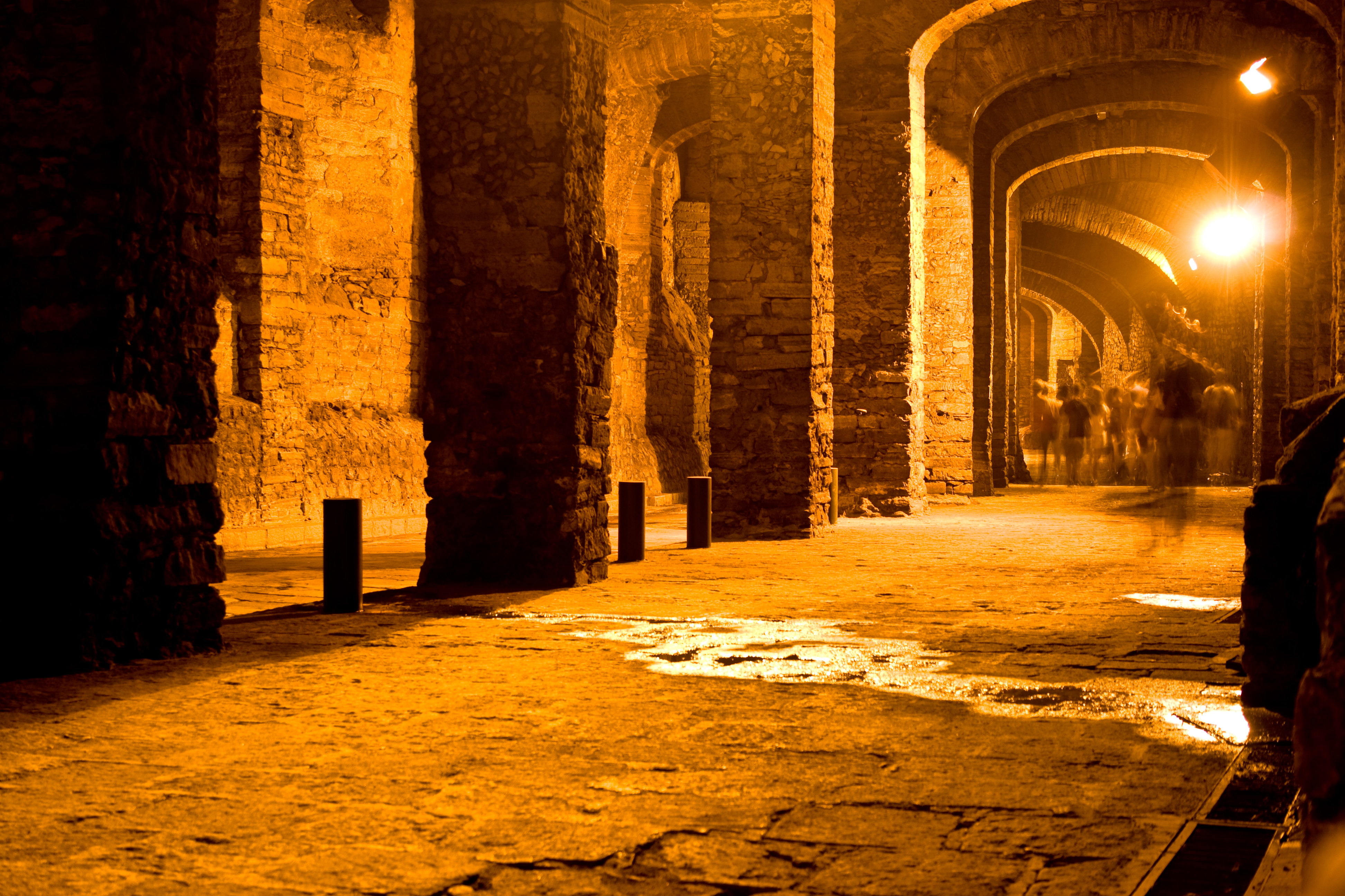 A street tunnel underneath the Mexican city of Guanajuato.